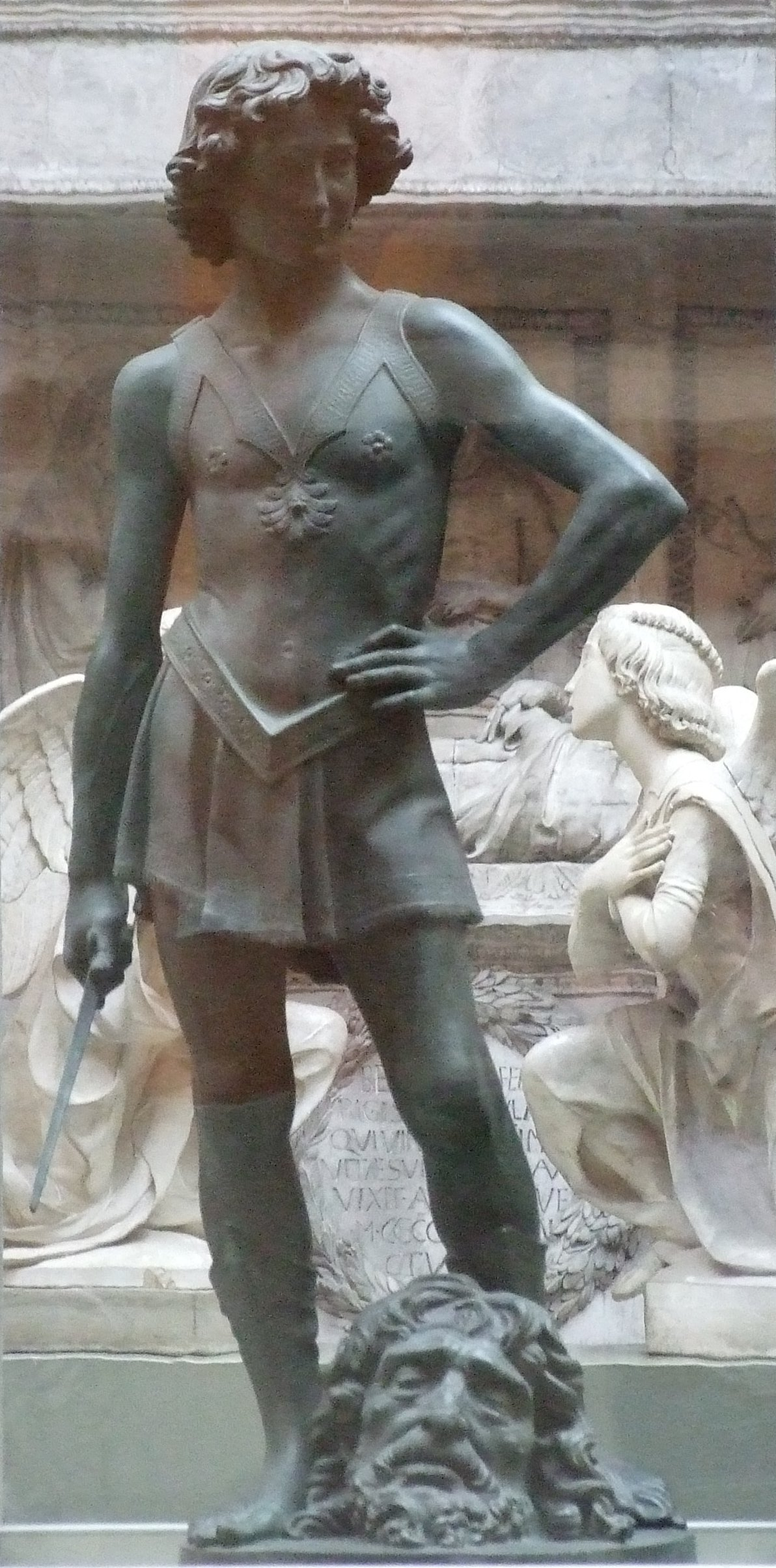 Cast in the Victoria and Albert Museum Cast Court. After bronze original with traces of gilding in Museo Nazionale (Bargello), Florence. Sculpture photographed in glass box.